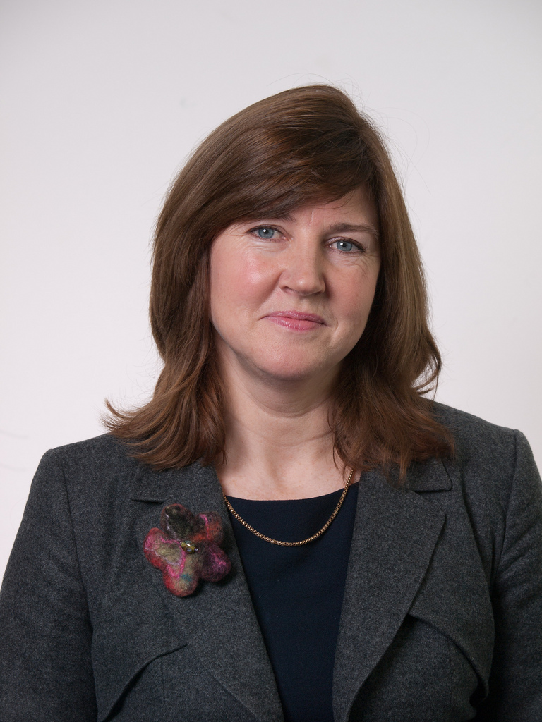 head and shoulders pic of Alison Johnstone MSP